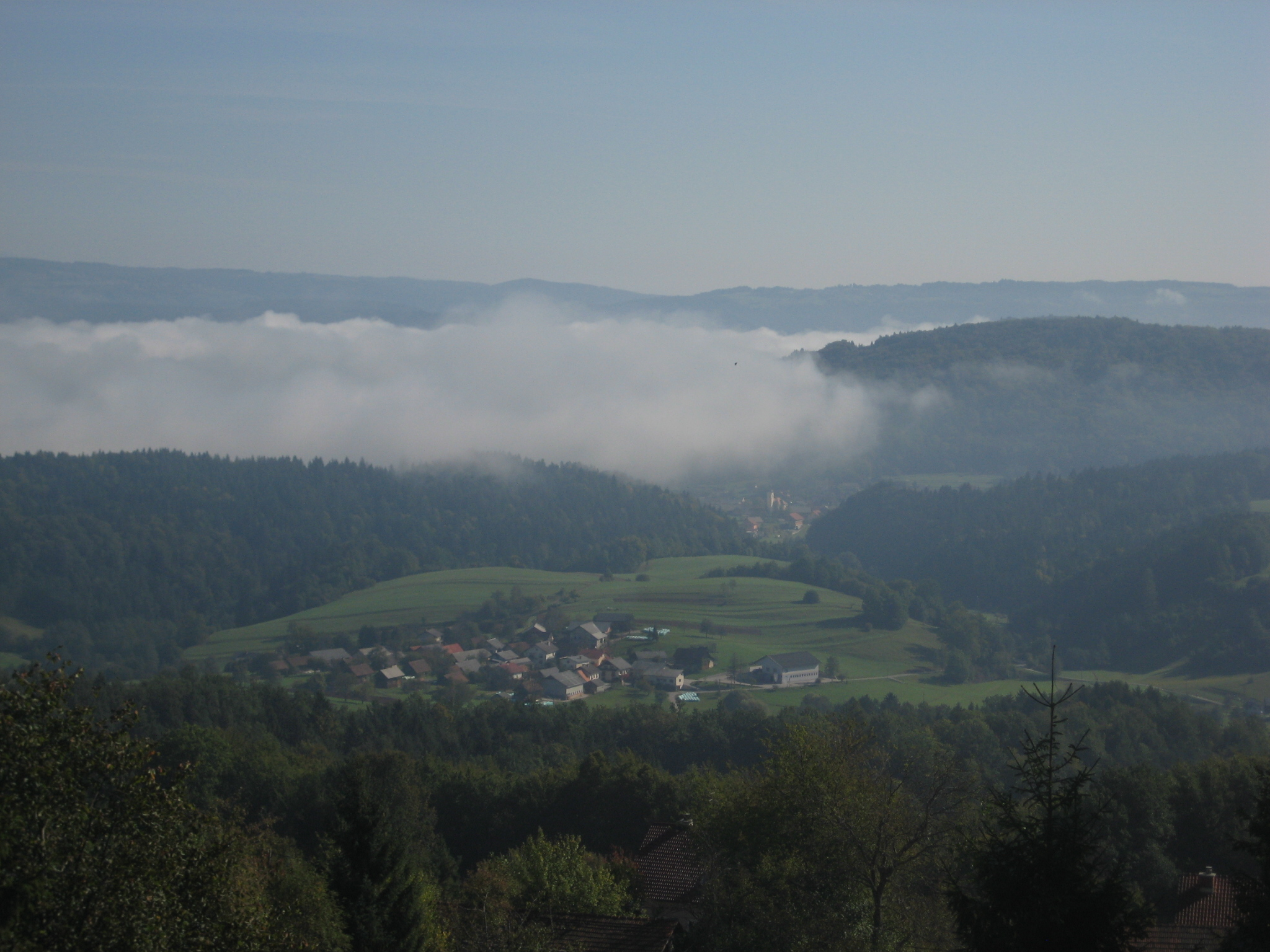 Udje, village in Slovenia. Behind is Št.Jurij (near Grosuplje)